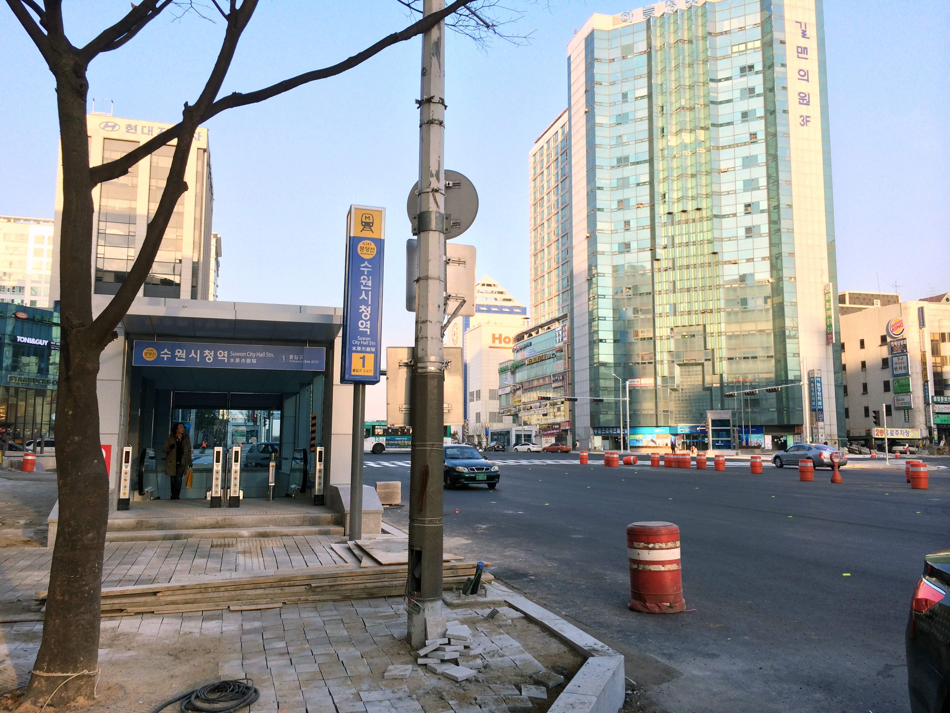 1st exit of Suwon City Hall Station